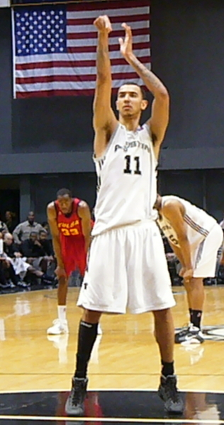 Marcus Williams shoots a free throw for the Austin Toros